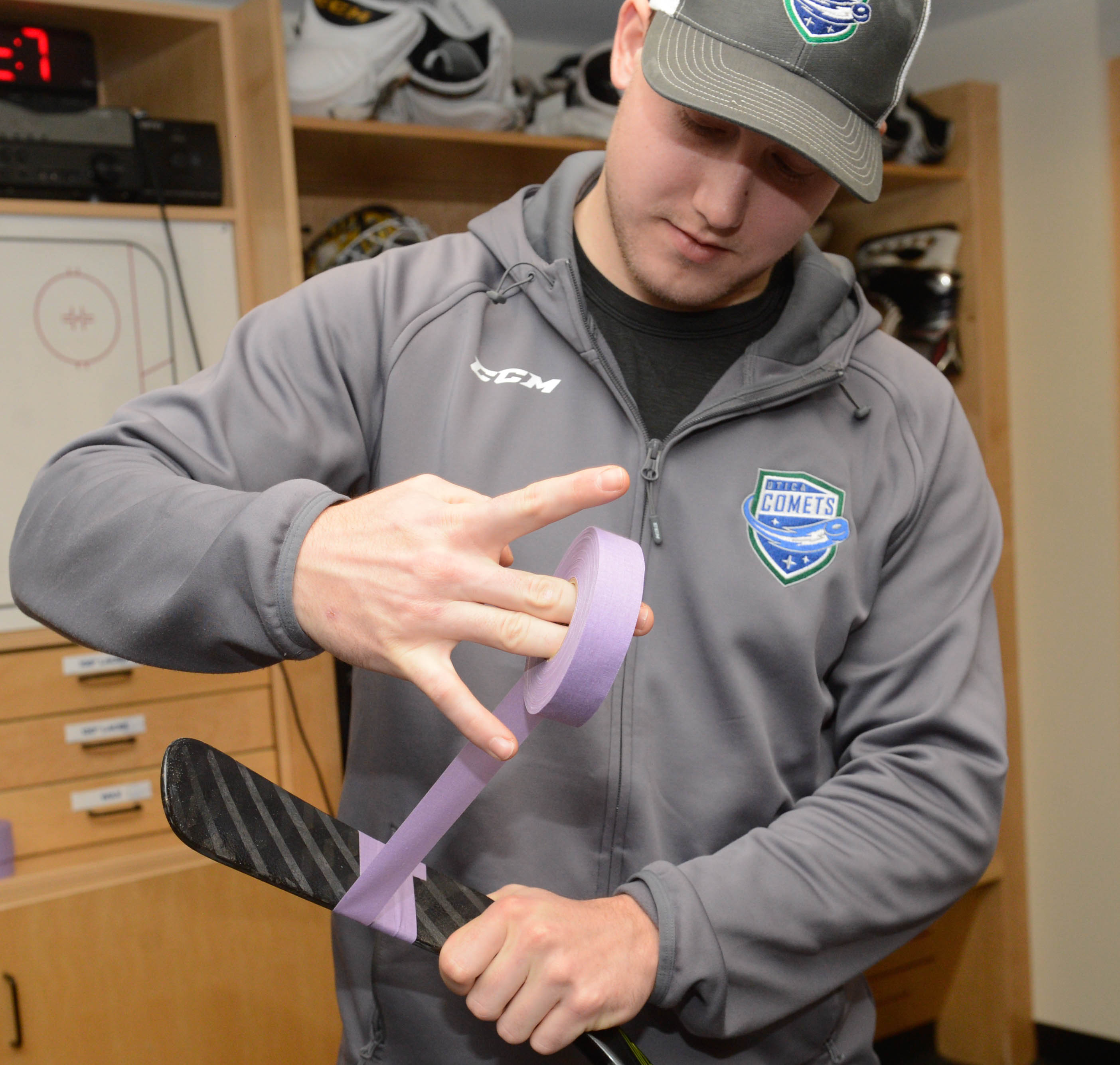 (Lindsay A. Mogle / AHL)